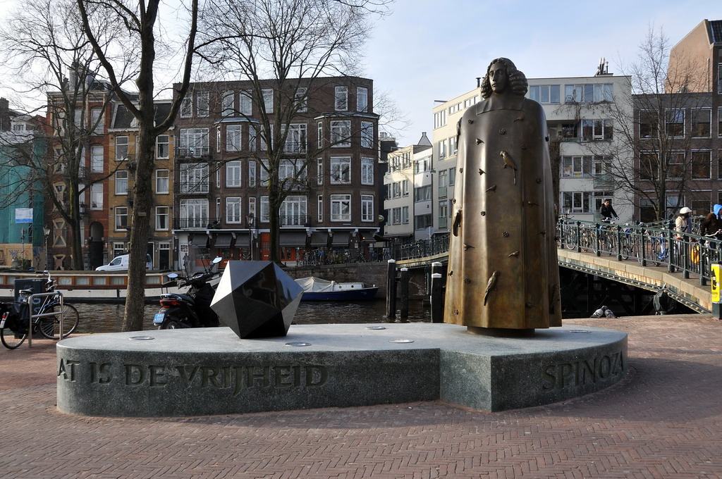 Statue, made by Nicolas Dings (Tegelen, 1953) of the philosopher and writer Baruch de Spinoza, on the Zwanenburgwal (canal), in front of the Stopera (city hall) of Amsterdam. Inscription: "Het doel van de staat is de vrijheid." (The Goal of the State is Liberty.)